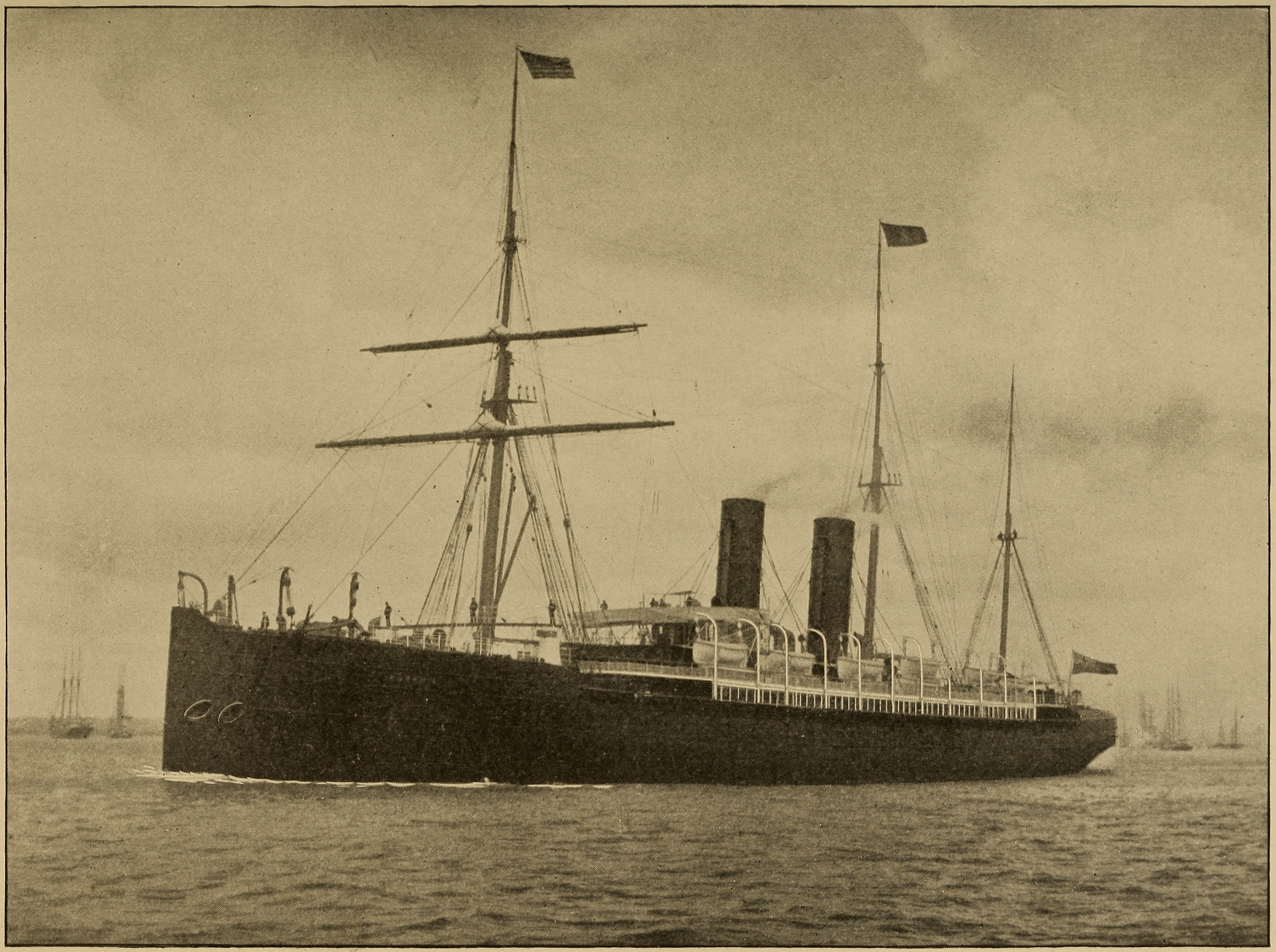 Cassier's Magazine of September 1895 had an article on page 467-480, written by Joseph R. Oldham and titled American Lake Steamers for Ocean Traffic. It was accompanied by a number of illustrations, including this, showing the Aurania of the Cunard Line, on page 471.